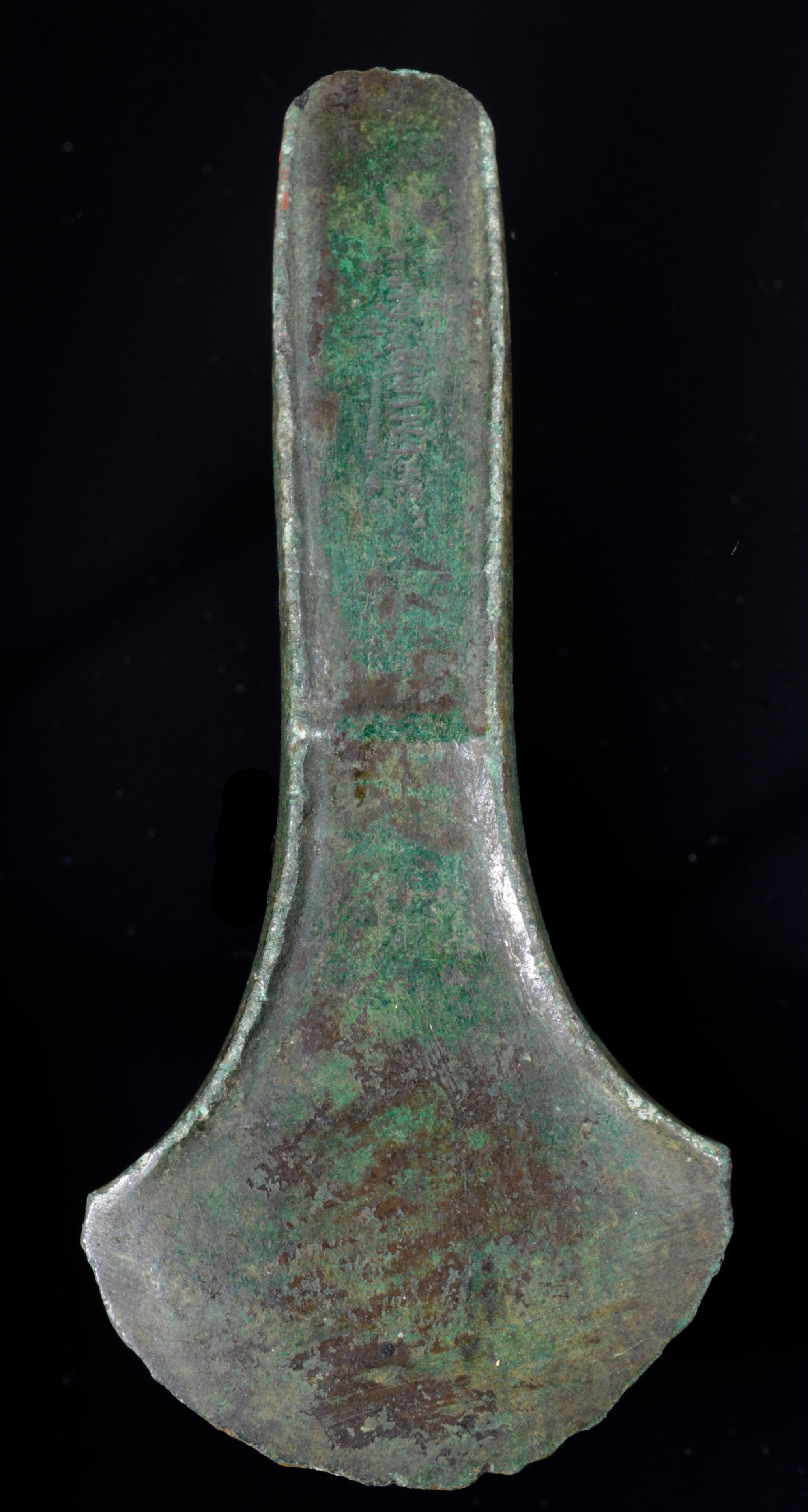 A Bronze Age flanged axe from Loopstedt